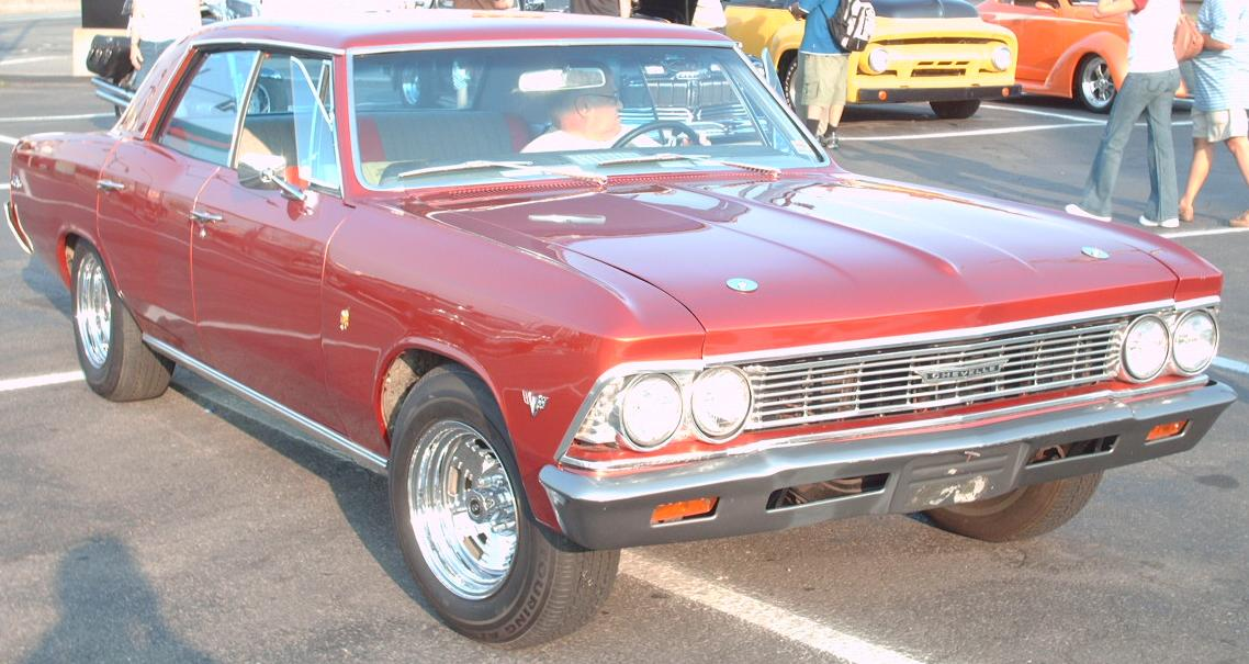 Chevrolet Chevelle Malibu photographed in Montreal, Quebec, Canada at Gibeau Orange Julep.